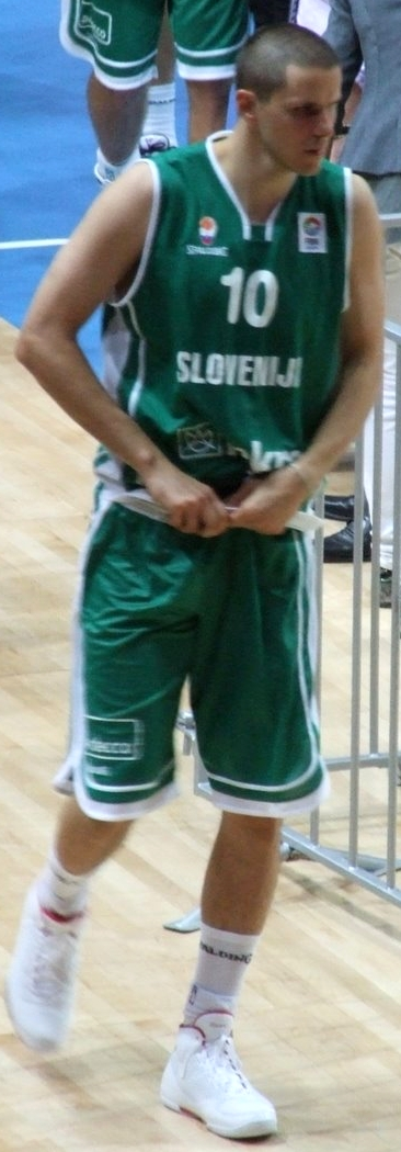 Slovenia vs. Great Britain at EuroBasket 2009.